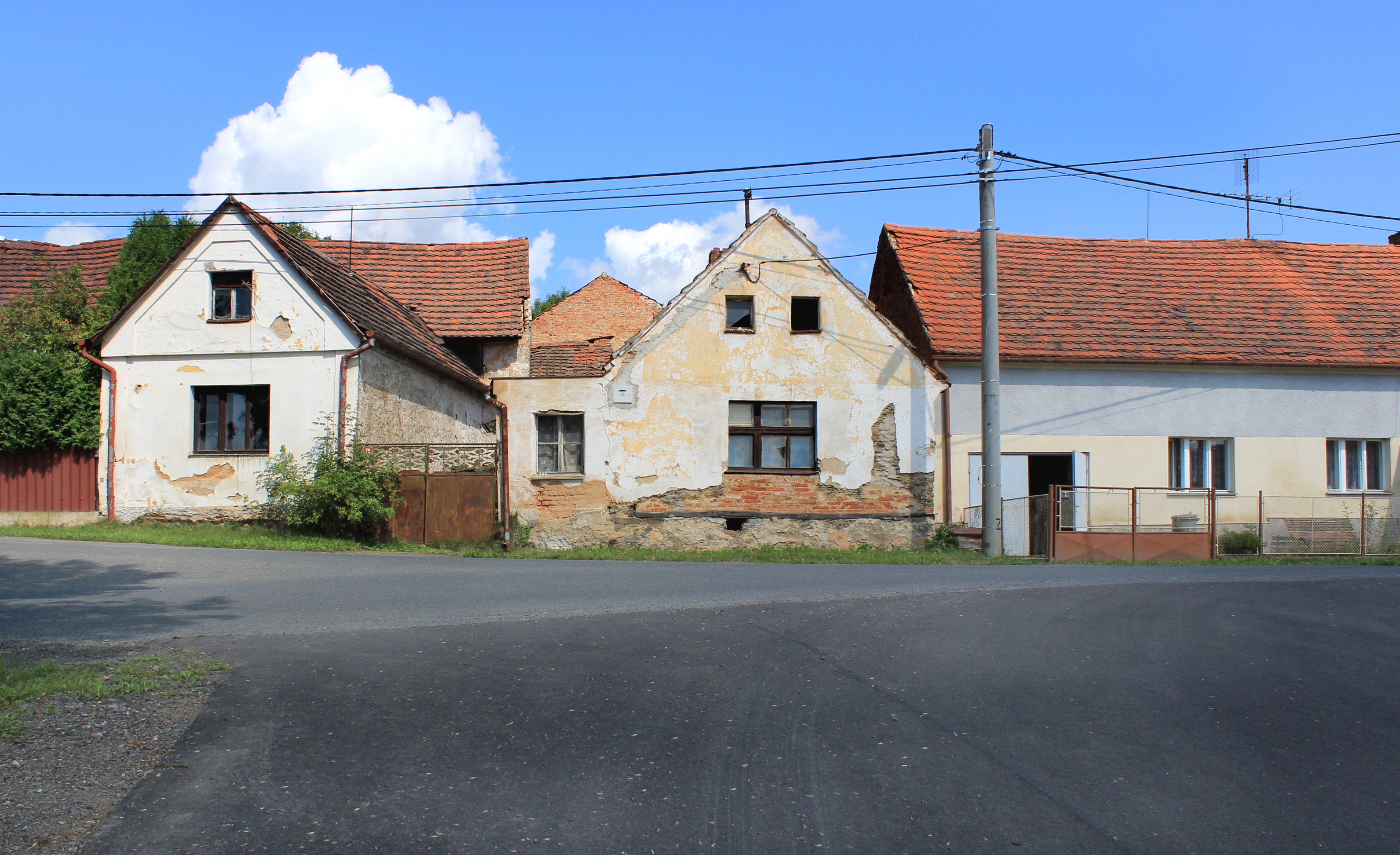 North common in Hlohová, Czech Republic.